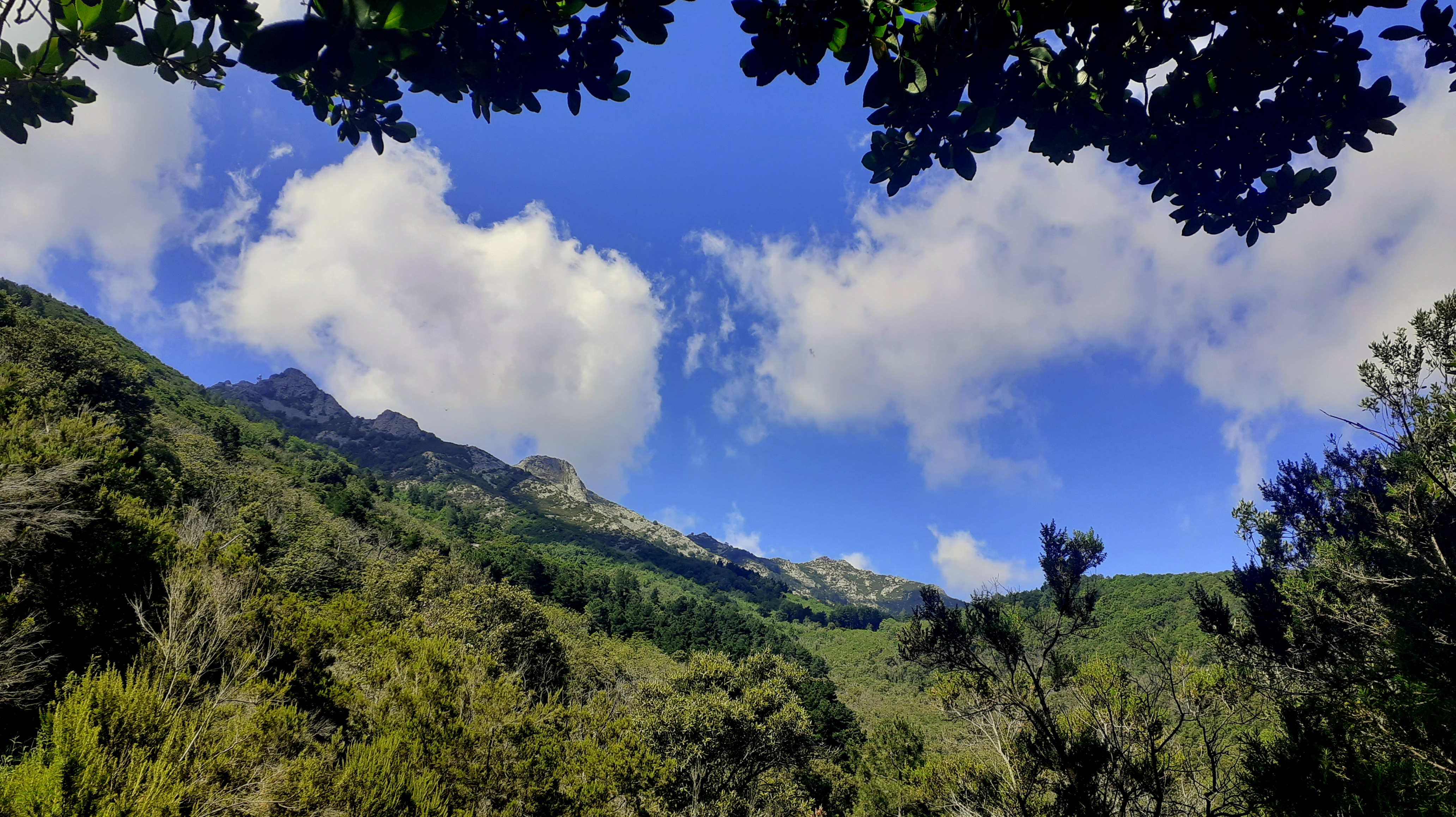 elba island